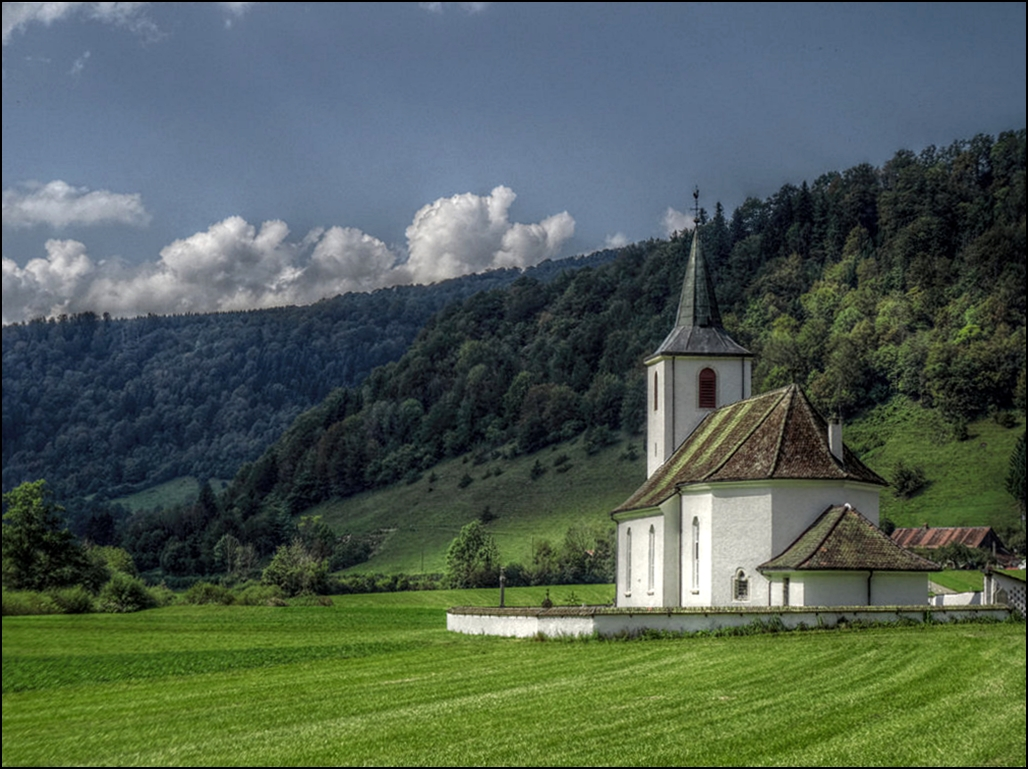 The church of La Motte in the Doubs Valley.